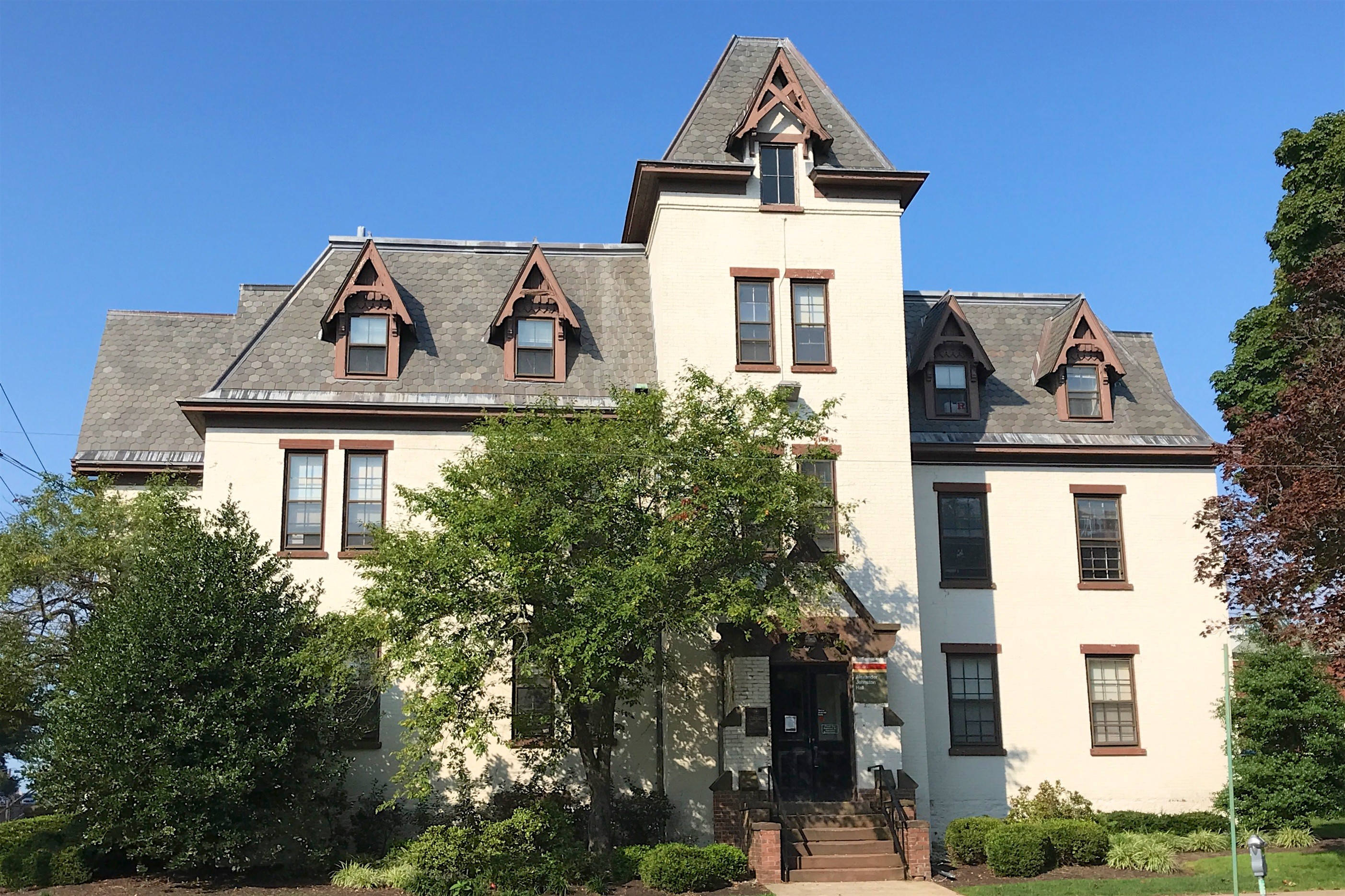 Alexander Johnston Hall in New Brunswick, New Jersey. Built in 1830 as the home of Rutgers Preparatory School. Now part of Rutgers University.